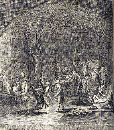 Title: Torture Chamber of the Inquisition. From 'A Complete History of the Inquisition', Westminster, London 1736